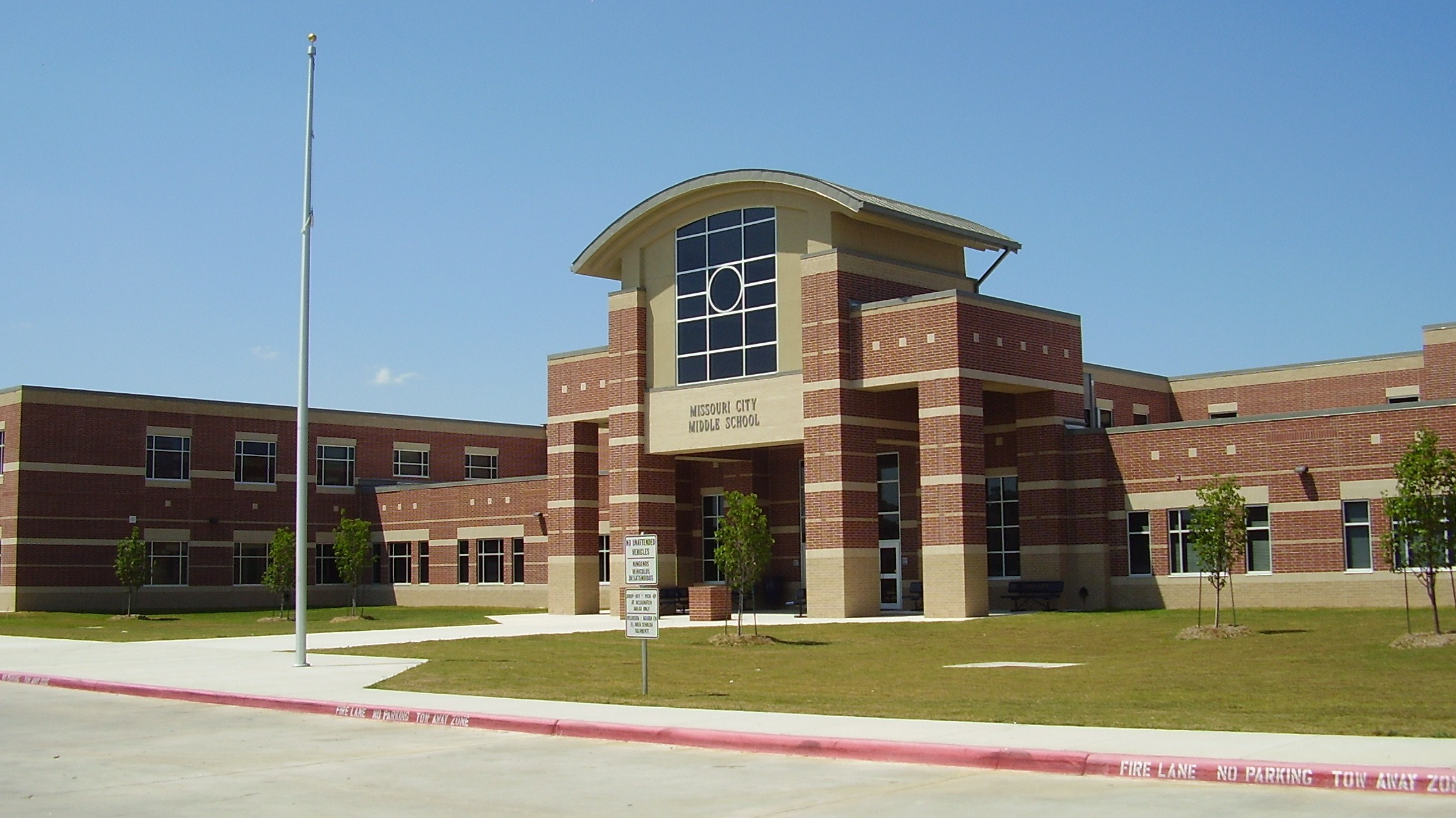 Missouri City Middle School